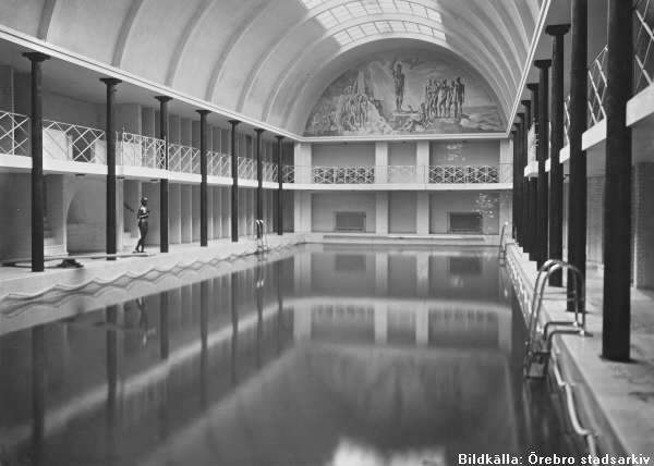 The old baths in Örebro, Sweden